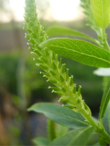 Salix triandra. Female flowers. Northern Germany.